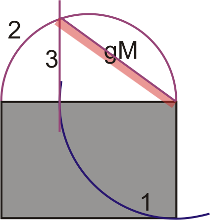 Drawing the geometric mean (Thales)